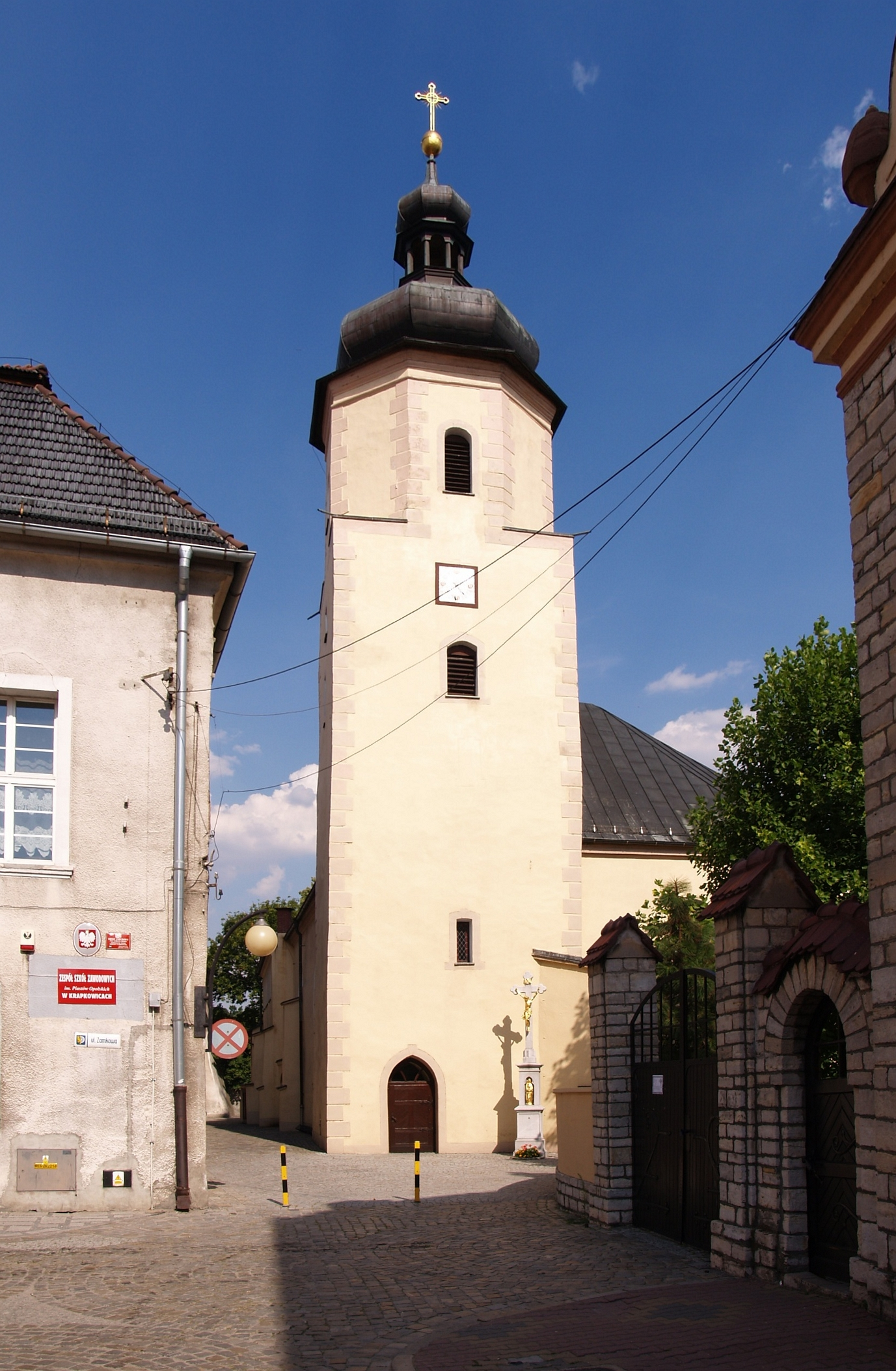 St. Nicholas church in Krapkowice